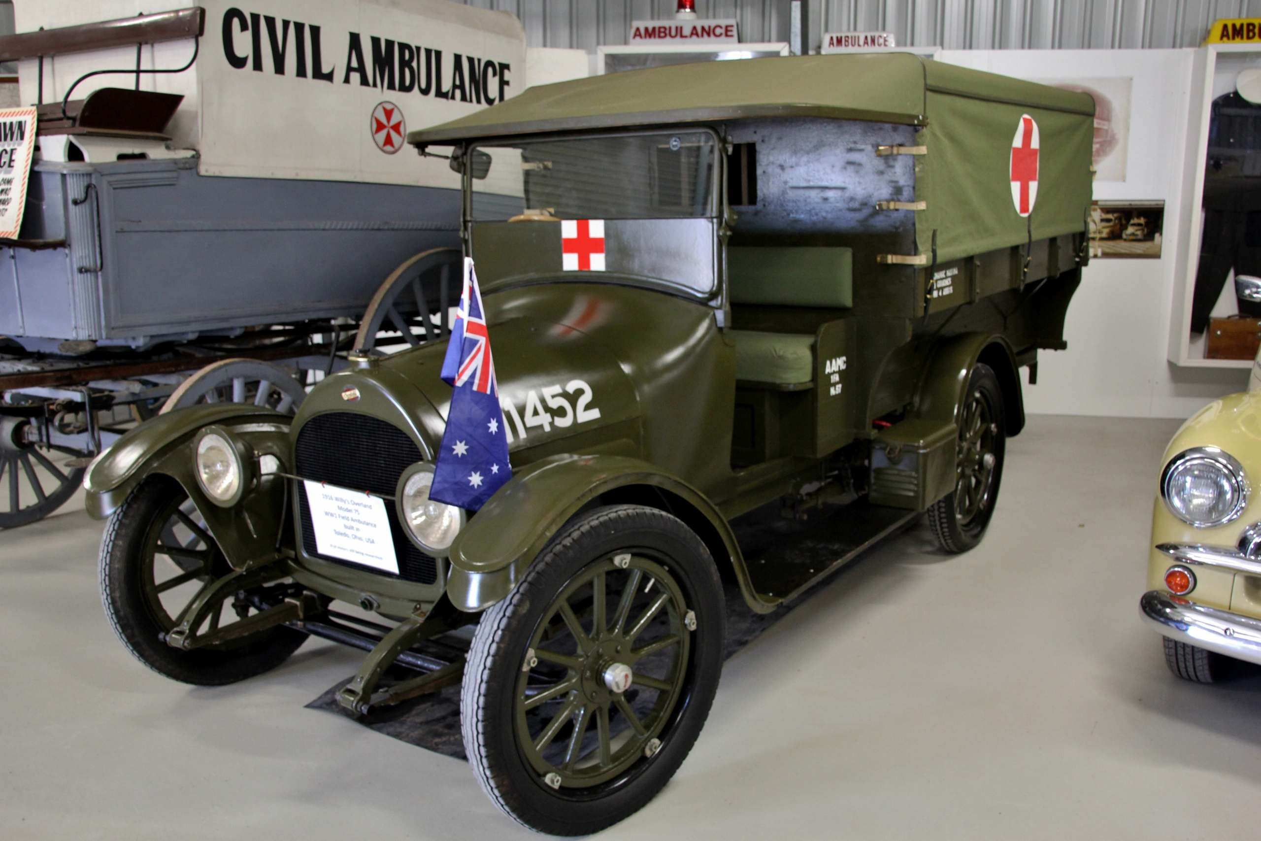 1916 Overland Model 75 ambulance. Australian Army Medical Corps - 1st Field Ambulance. Taken at the Temora Ambulance Museum (part of the Temora Rural Museum), Temora, New South Wales.